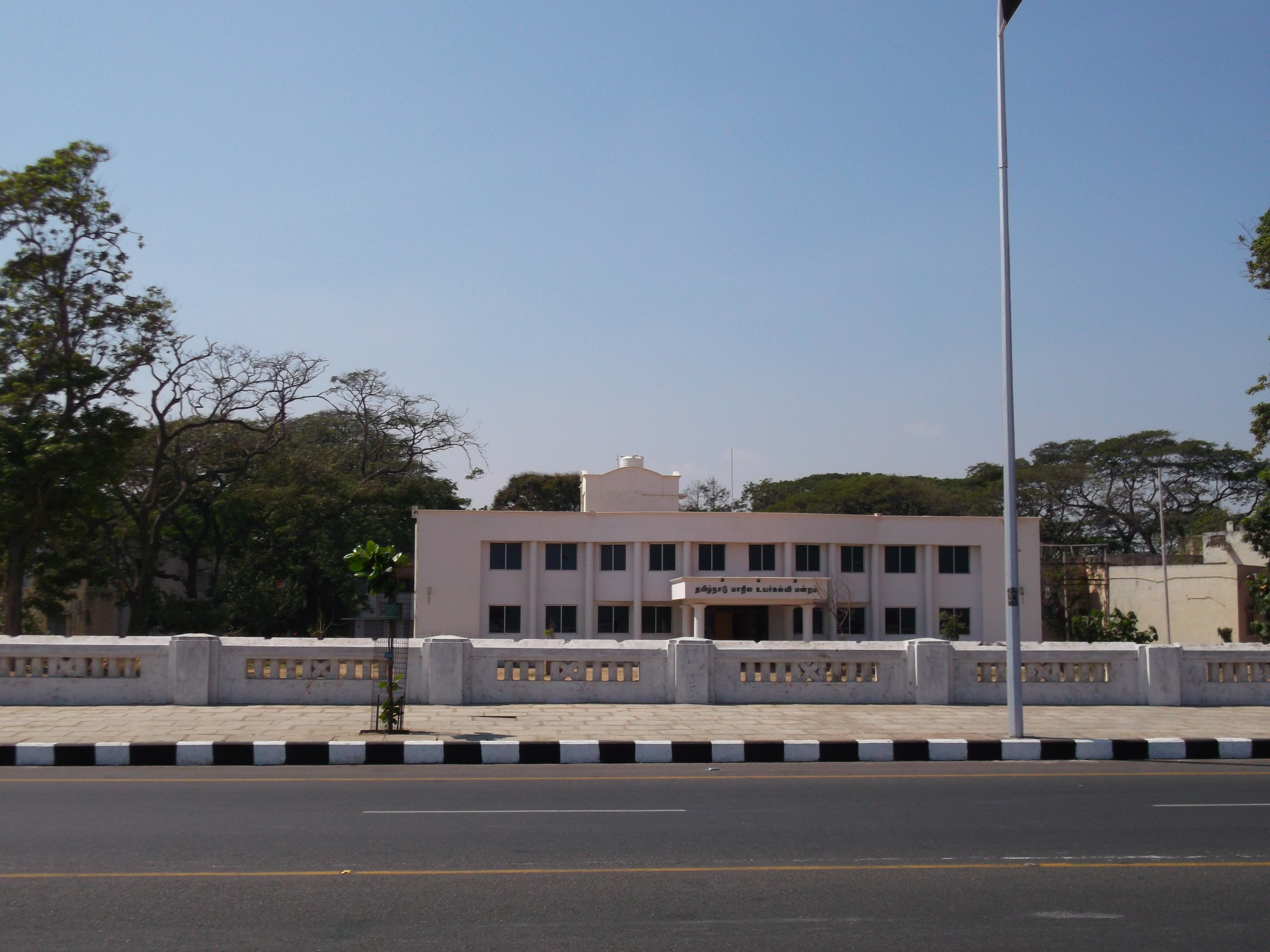 State Council for Higher Secondary Education, Chennai, taken on 2-Feb-2013, at 1:45 pm